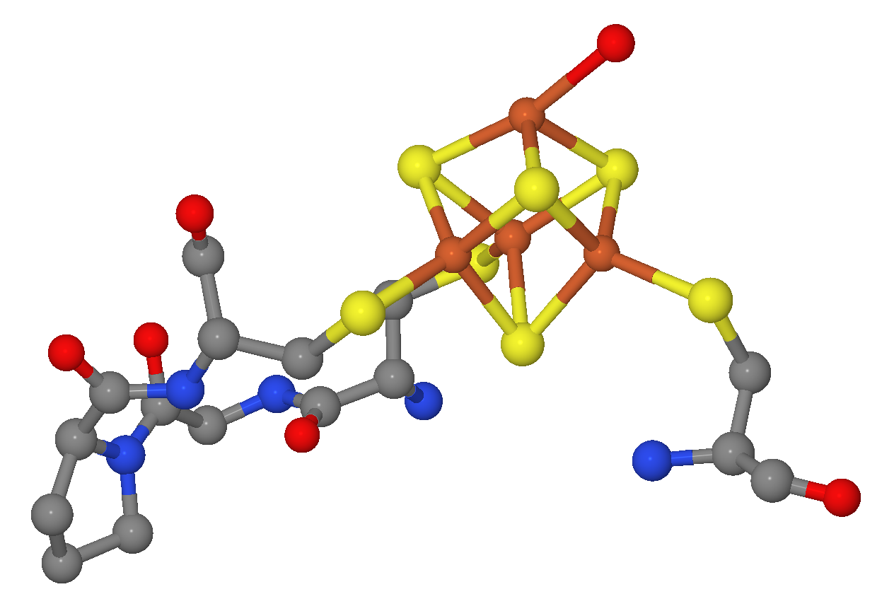 3d ball-and-stick model of part of activated pig aconitase centered on (4Fe4S) cluster bound to cysteine-385, -448, -451, after PDB 7ACN. The only ligand is -OH. Ref.: Robbins AH, Stout CD (May 1989). "Structure of activated aconitase: formation of the [4Fe-4S] cluster in the crystal". Proc. Natl. Acad. Sci. U.S.A. 86 (10): 3639–43. PMID 2726740. PMC: 287193.